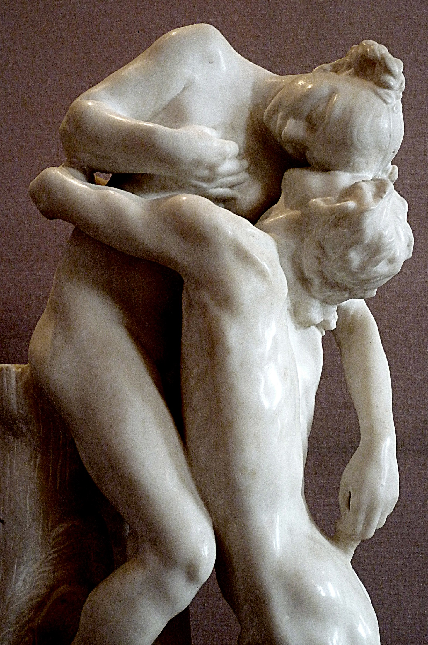 Vertumnus and Pomona (1905, marble), by Camille Claudel (1864 - 1943)